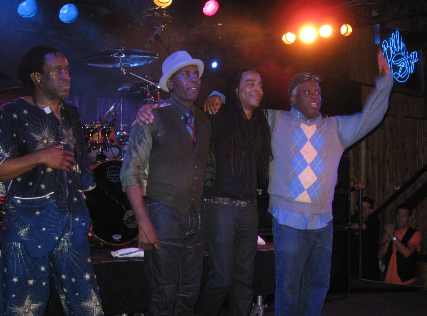 All four members acknowledging the audience after the show.